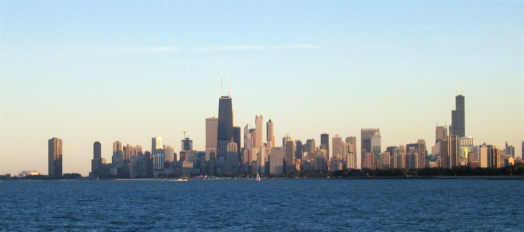 Downtown Chicago photographed from Montrose Point